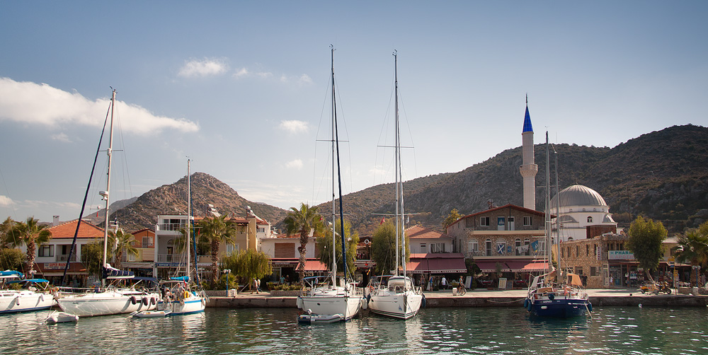 Bozburun